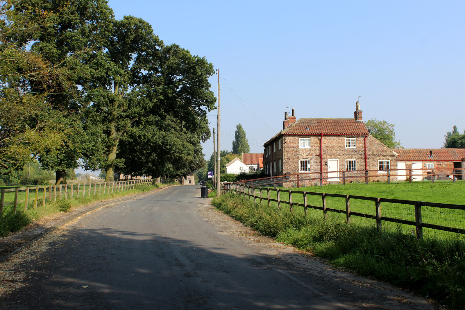 Walshford (1)